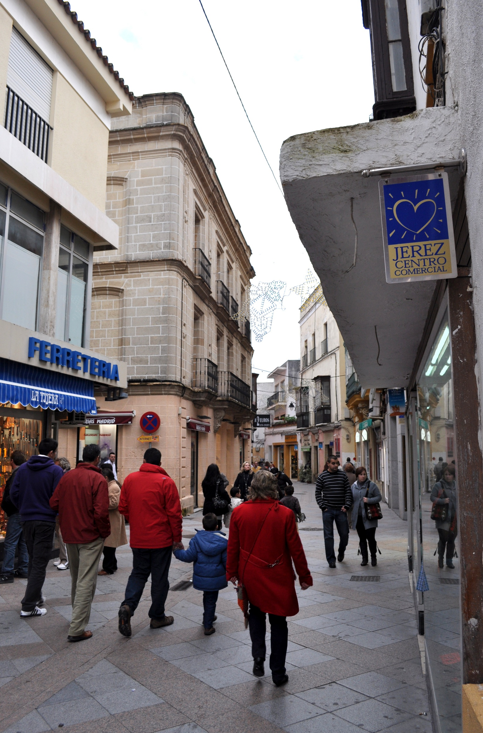 Doña Blanca St. Jerez de la Frontera